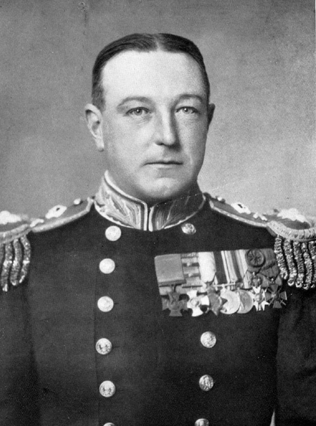 Photograph of Gordon Campbell VC.